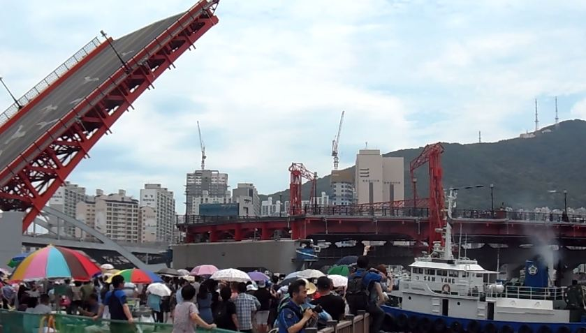 Yeongdo Bridge